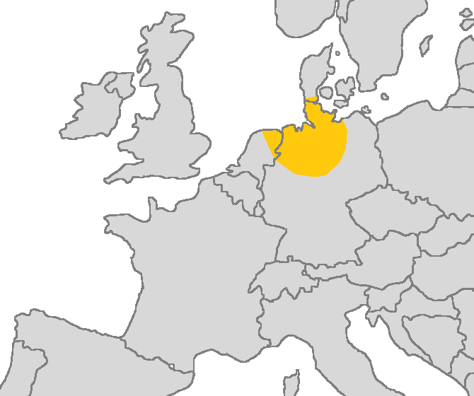 Area where Old saxon (also known as Old Low German) was spoken, between the 5th and the 12th centuries when it evolved into Middle Low German.